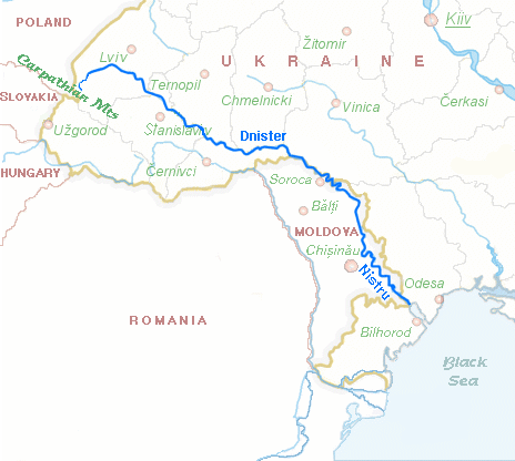 Dnister/Nistru (Dniestr) river